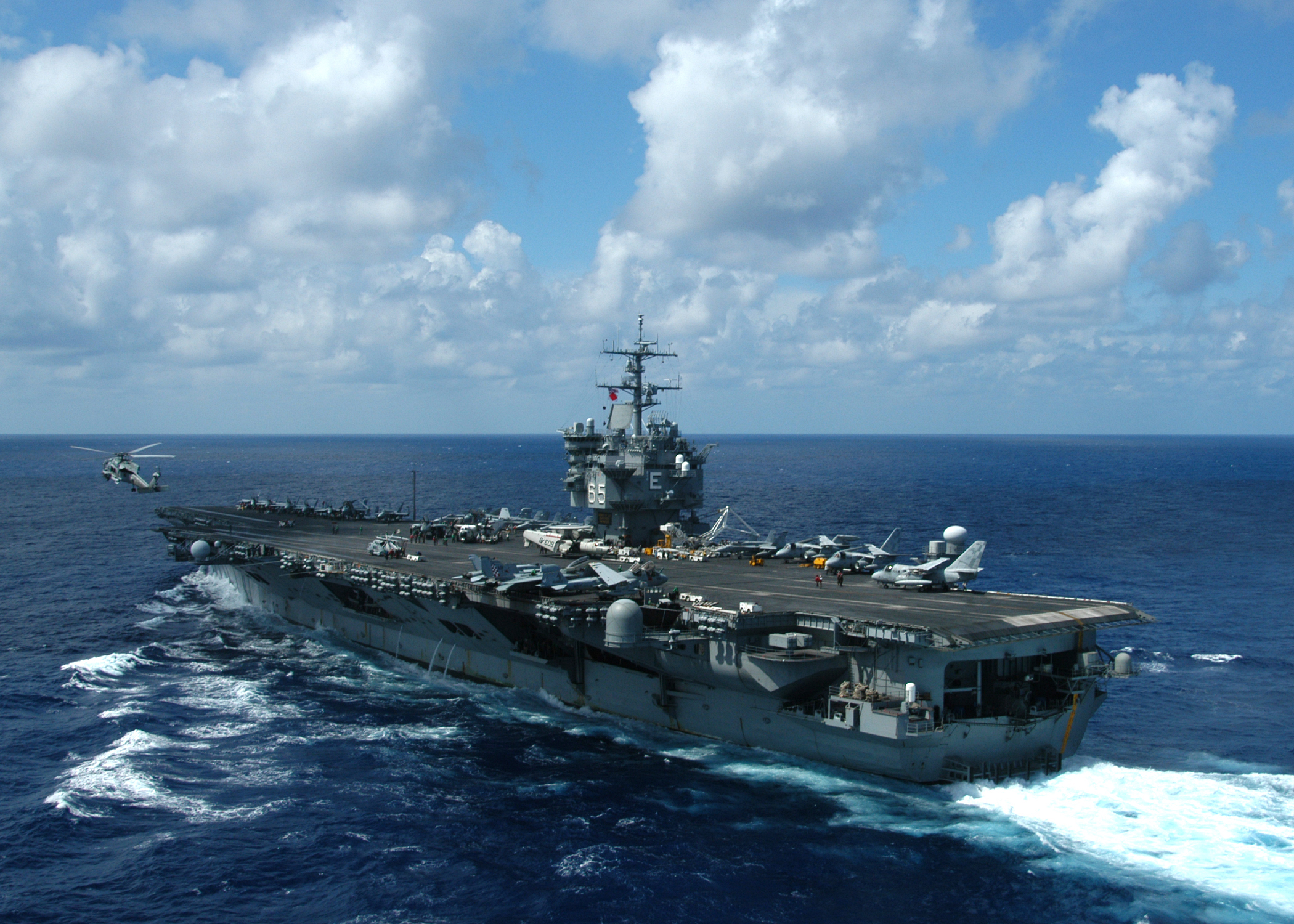 Atlantic Ocean (Sept. 21, 2003) -- The aircraft carrier USS Enterprise (CVN 65) makes her way in the Atlantic Ocean during its final preparation for the Enterprise Strike Group deployment to the Mediterranean. U.S. Navy photo by Photographer's Mate 2nd Class Douglas M. Pearlman. (RELEASED)